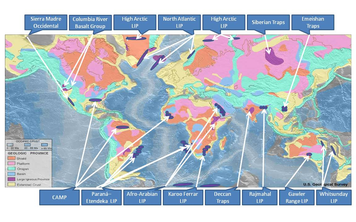 This file is an identification of large igneous provinces overlaid on a map produced by United States National Oceanic and Atmosphere Administration's National Geophysical Data Center. Intended for use in the Large igneous province page.